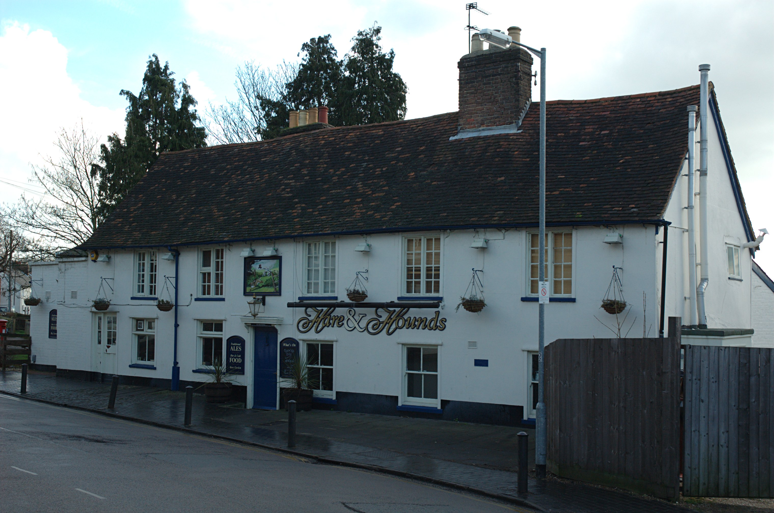 The Hare and Hounds, corner of Sopwell Lane and Cottonmill Crescent, St Albans, Hertfordshire, UK